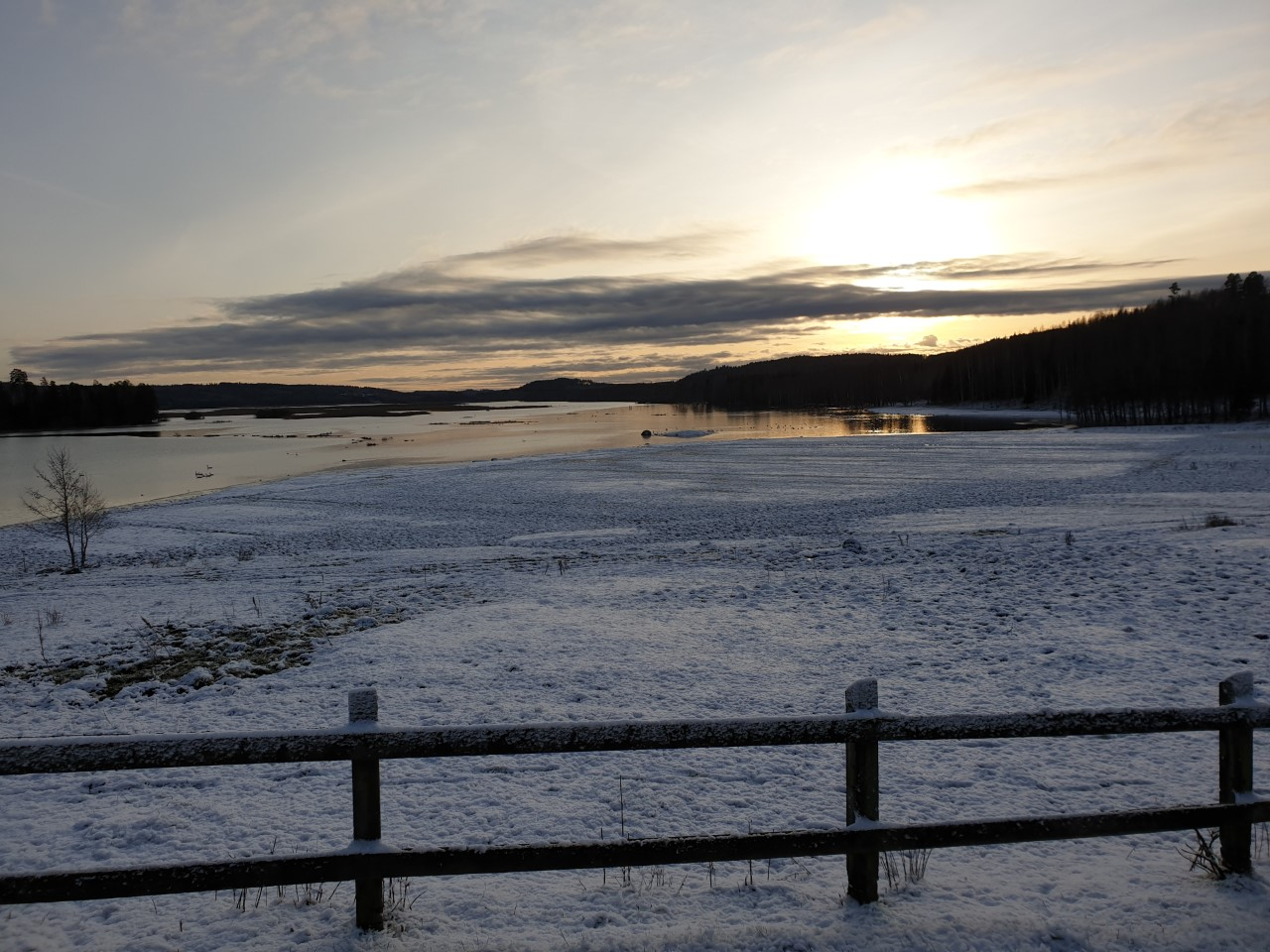 Gillbergasjön